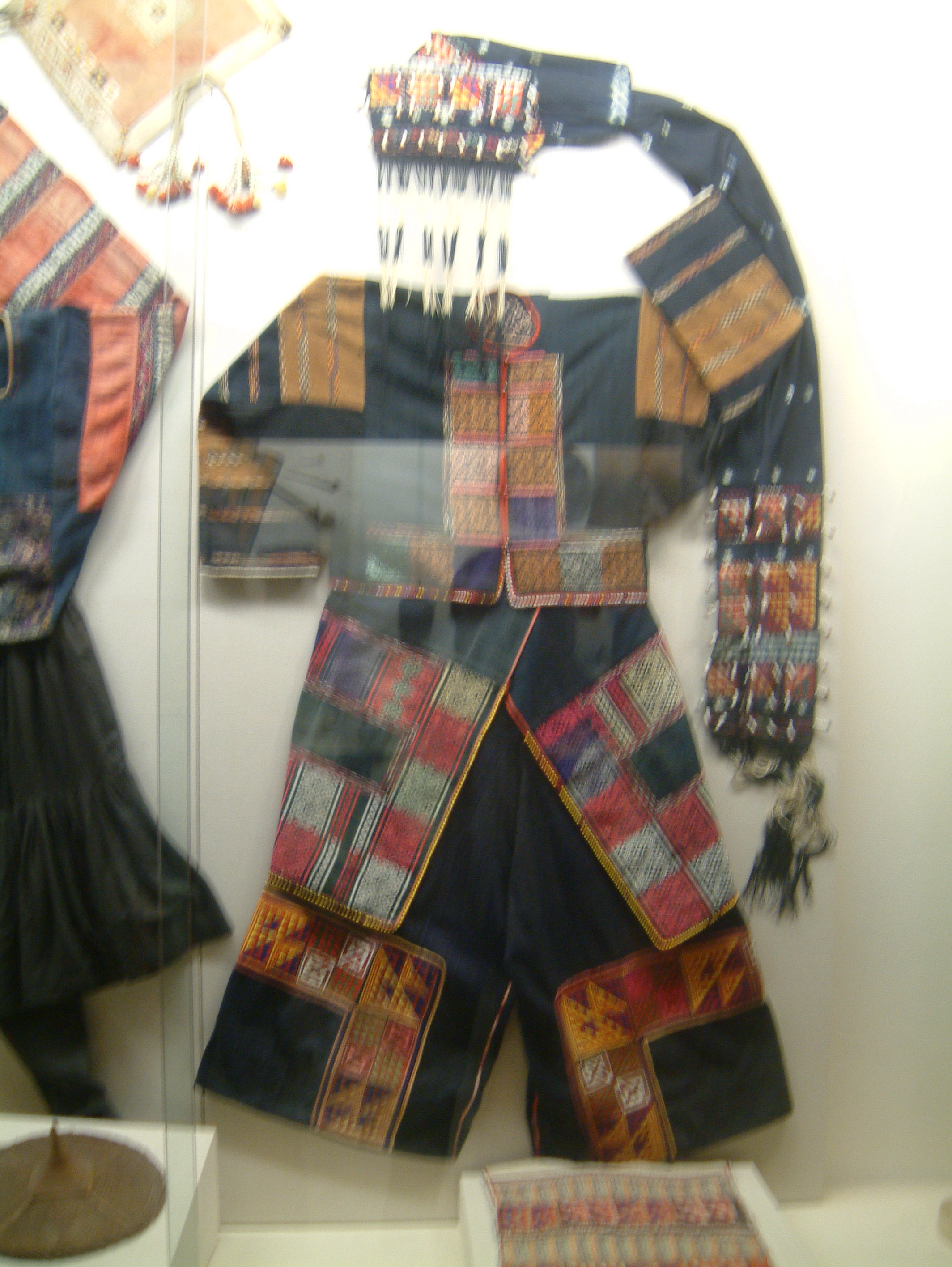 Traditional women’s clothing of Yi (Lolo) people of Ha Giang province (Vietnam Museum of Ethnology)